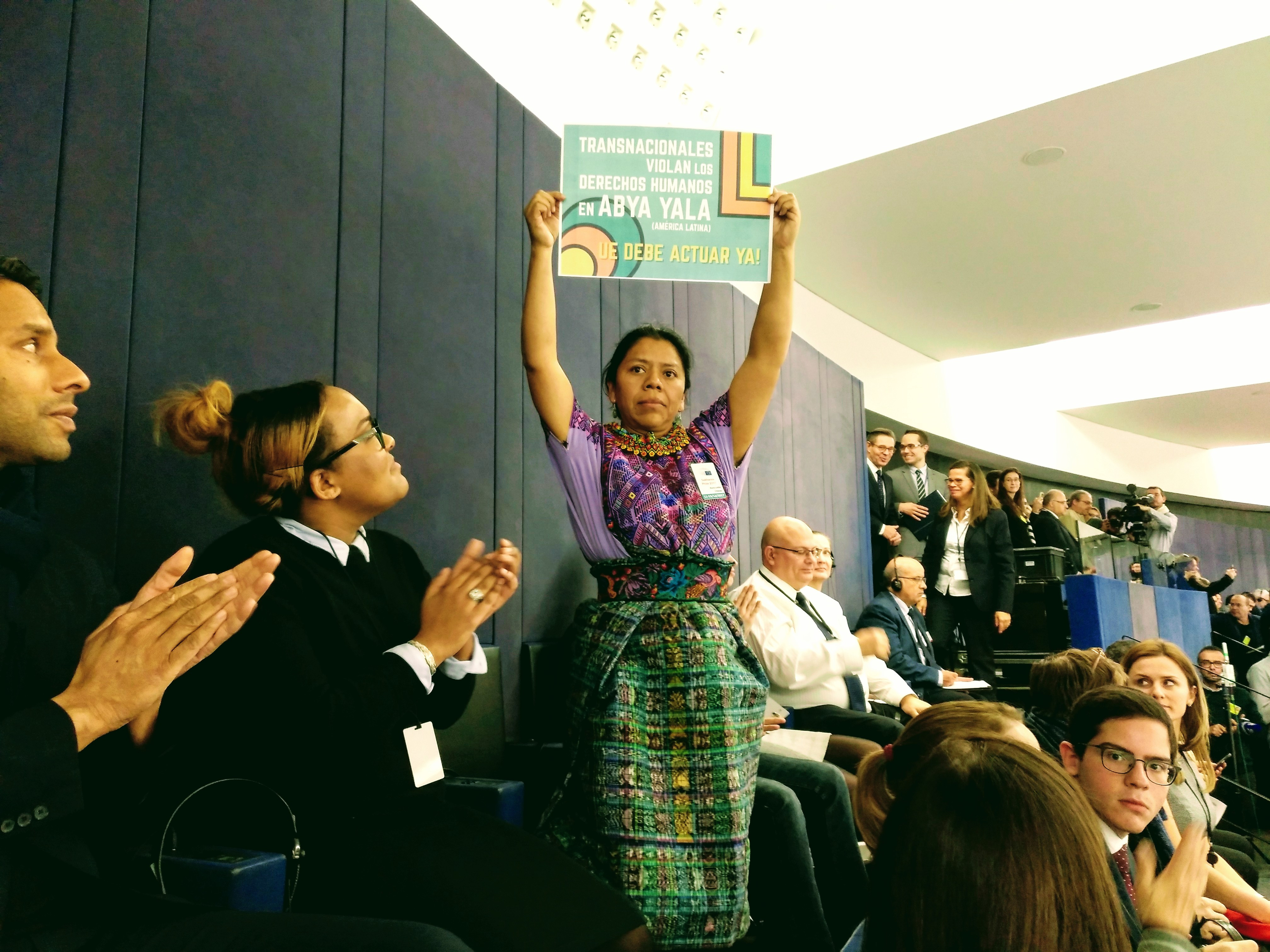 Aura Lolita Chavez Ixcaquic at the European Parliament